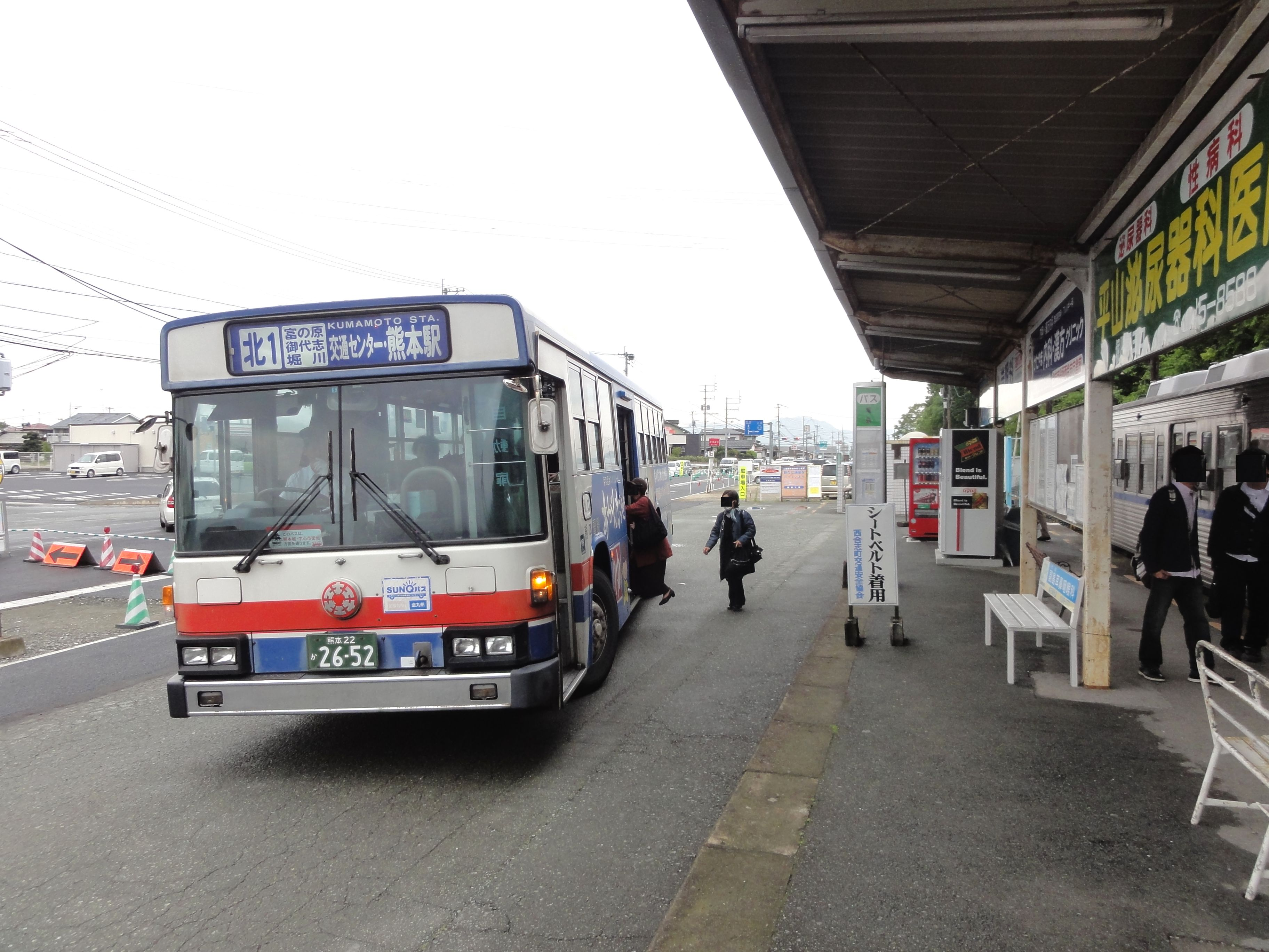 Bus stop at Kumamoto Electric Railway Miyoshi Station